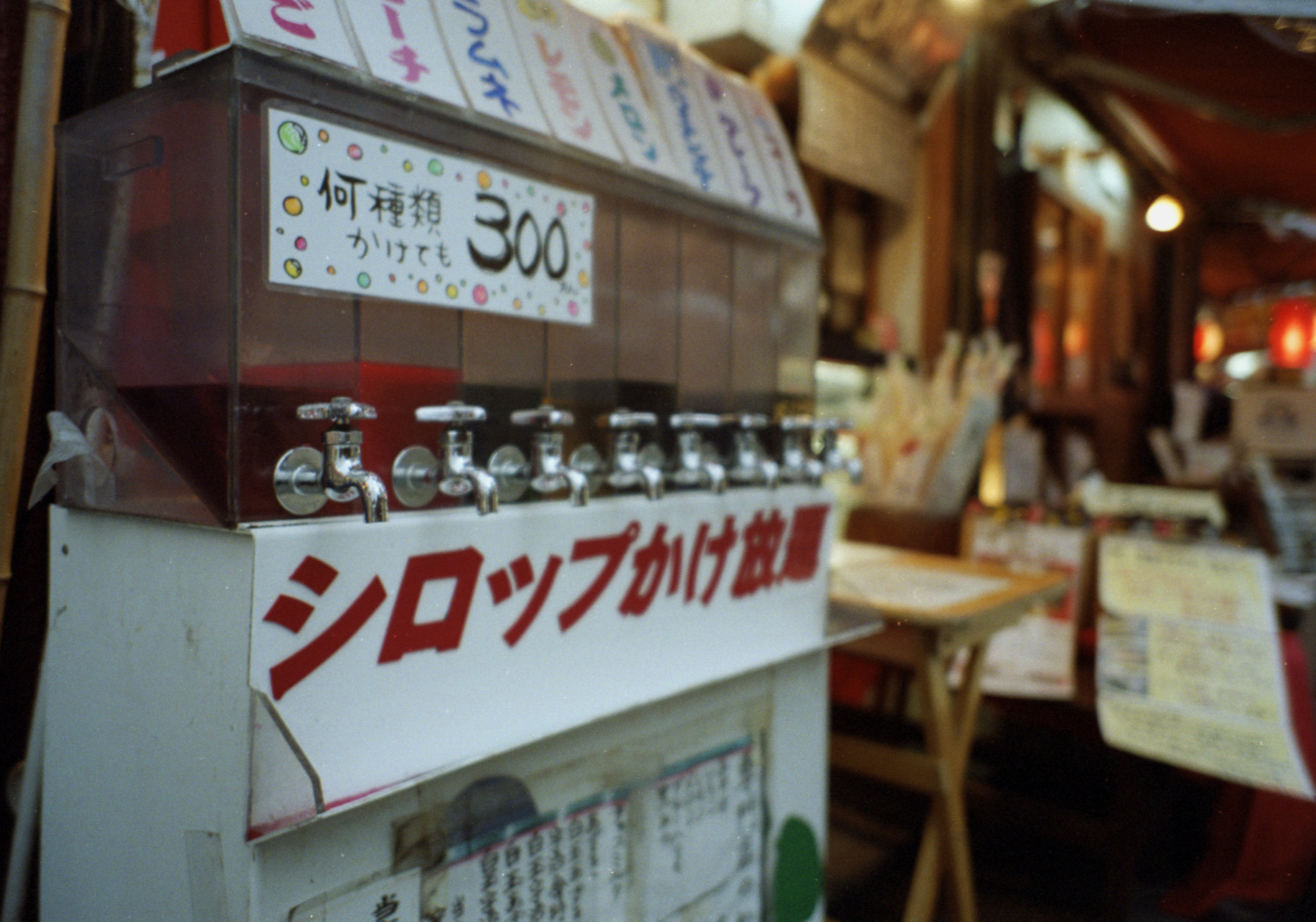 8 Flavors, strawberry peach ramune lemon melon grape and two.